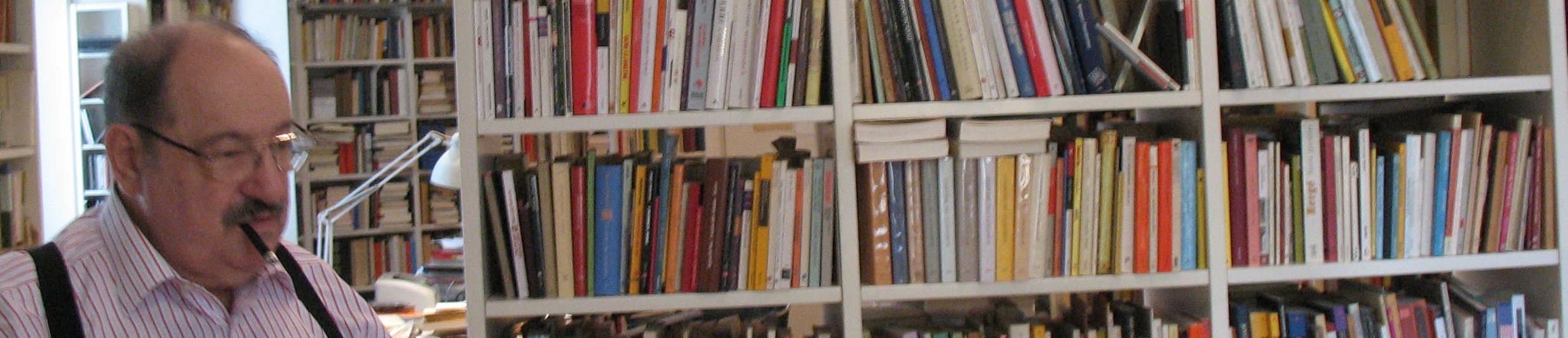 Umberto Eco interviewed by Aubrey in his Milan apartment for Wiki@Home. Here's the interview (in italian).